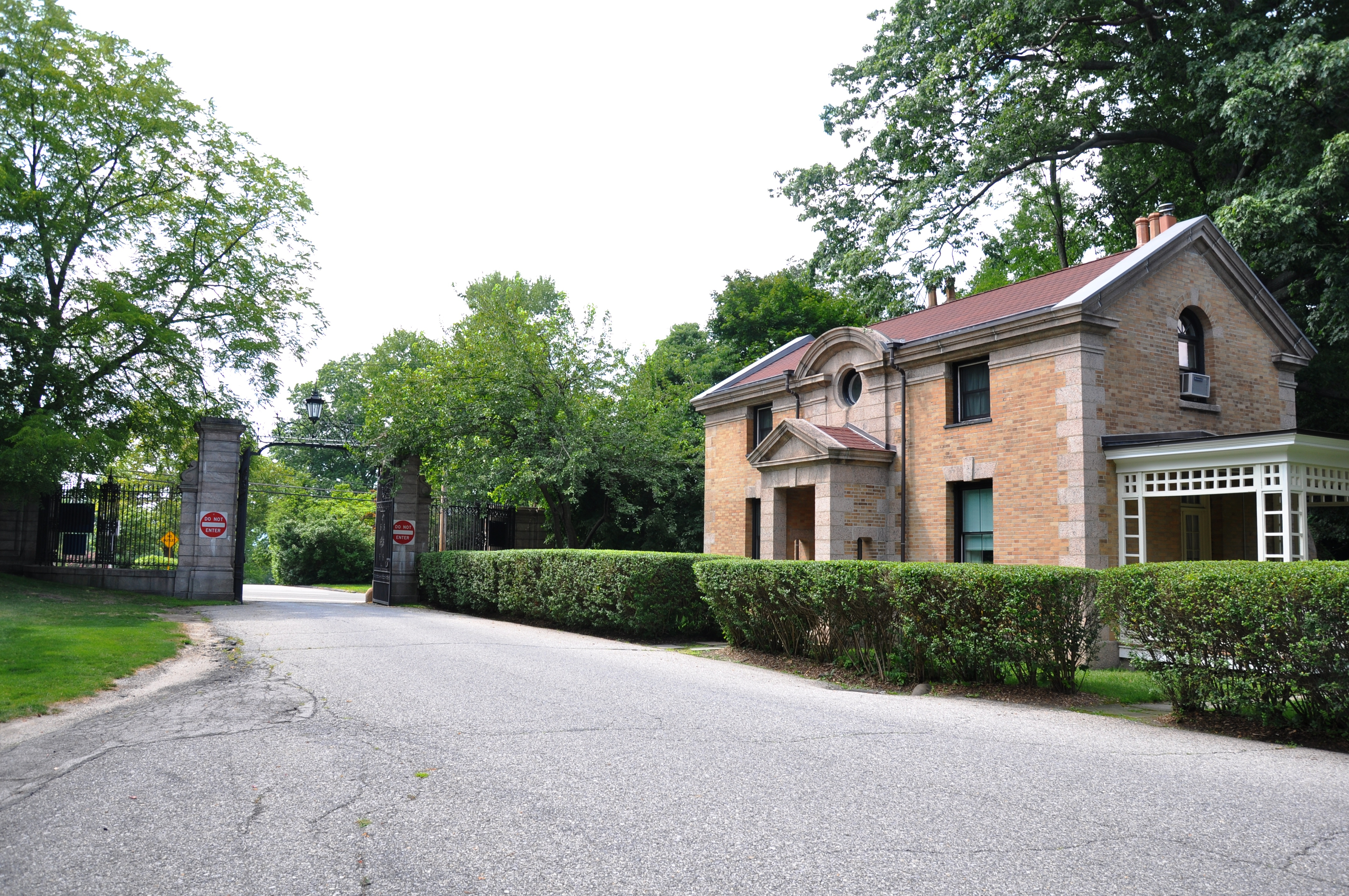 Sleepy Hollow Country Club; taken July 27, 2014.